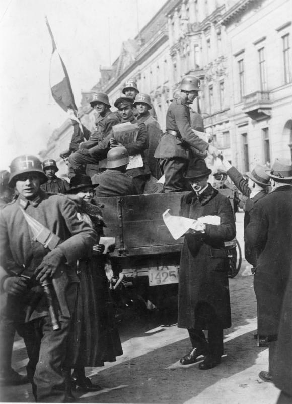 The Coup started with the march of the Ehrhardt naval brigade on March 13 in Berlin. That day, a government under Wolfgang Kapp and General von Lüttwitz was formed. Members of the naval brigade distributed leaflets on March 13 under the black-and-white-red flag and the steel helmets with the swastika.